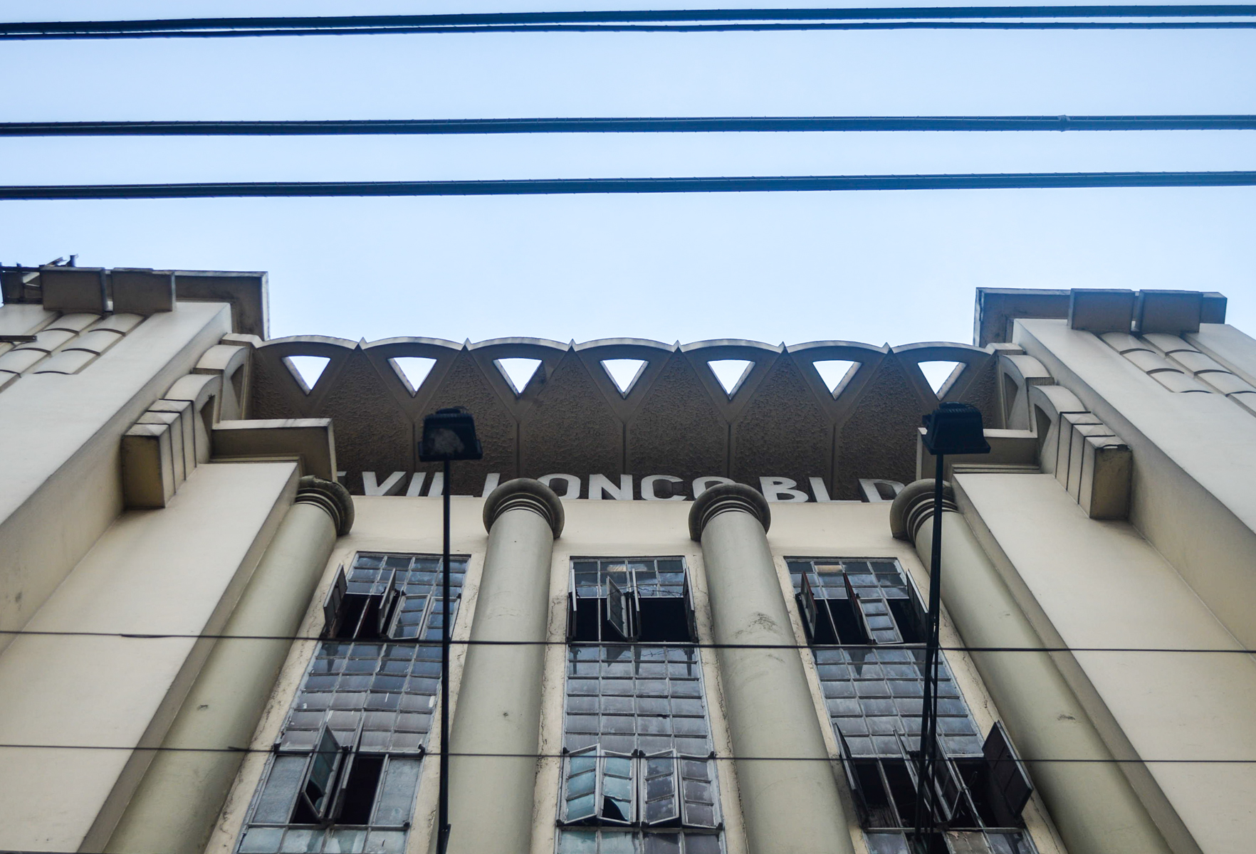 Main facade showing the art deco feature of the building